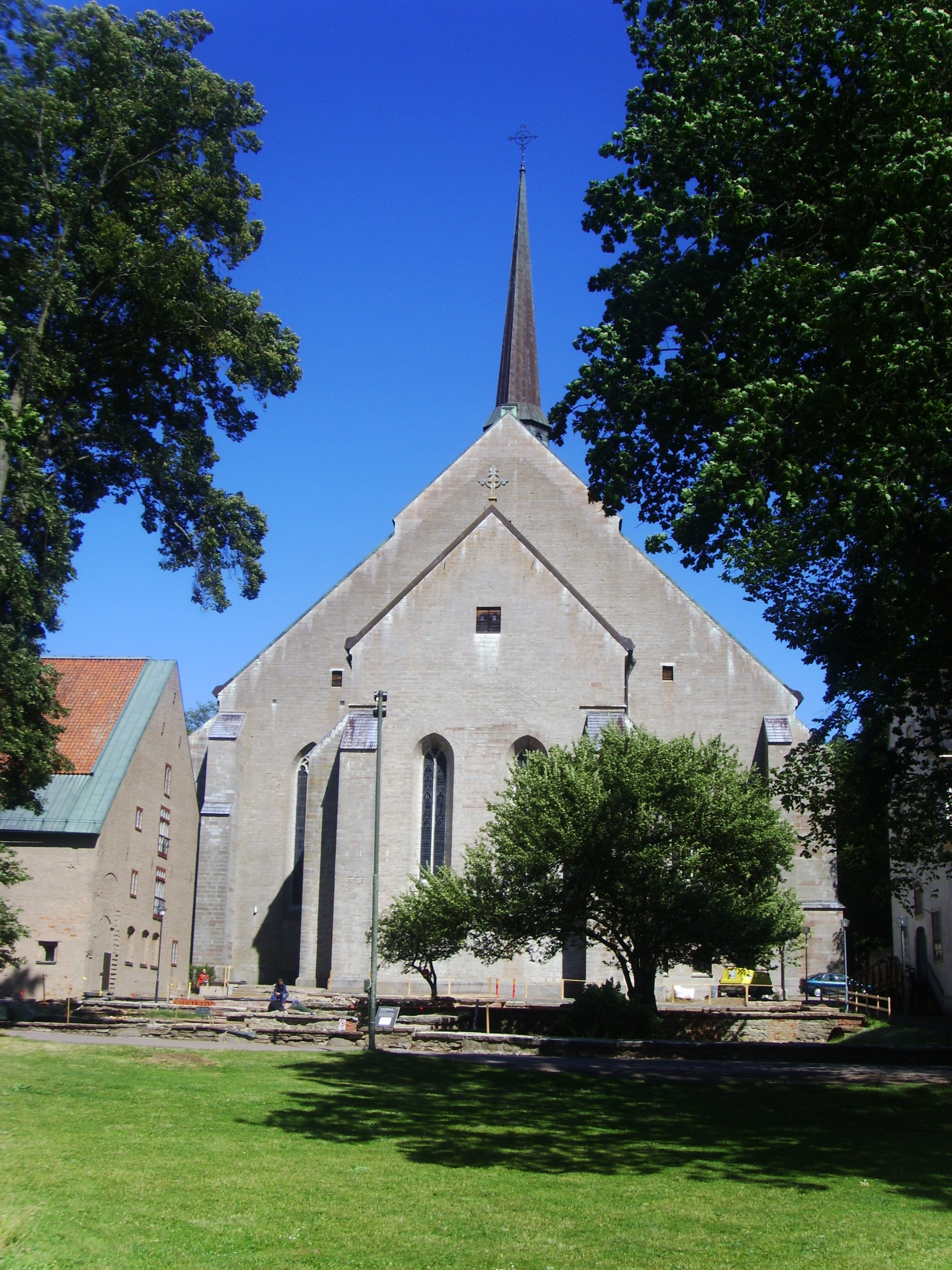 Vadstena Monastery